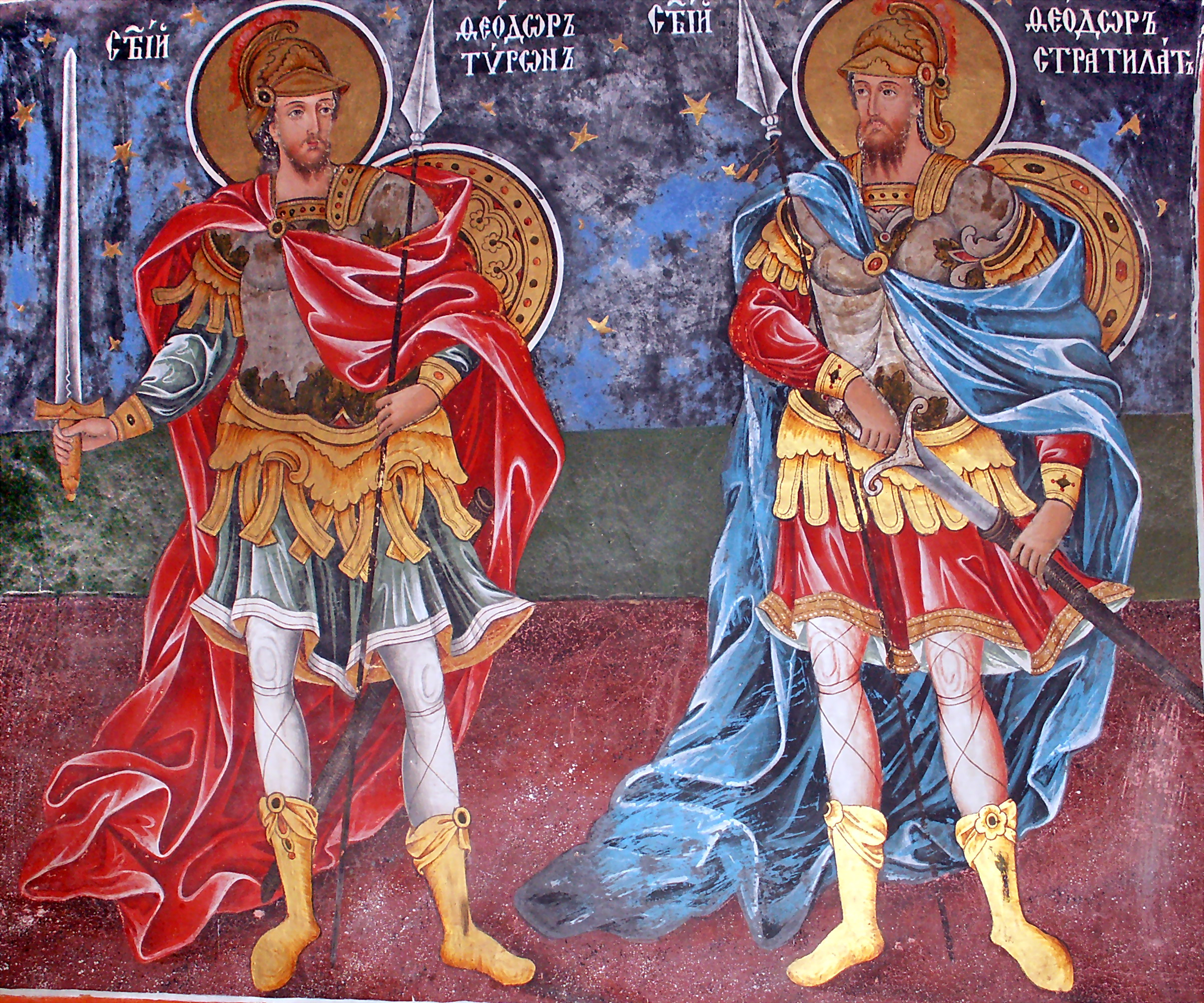 Saint Theodore Tyron and Saint Theodore Stratilates - a fresco from Rila Monastery, Bulgaria